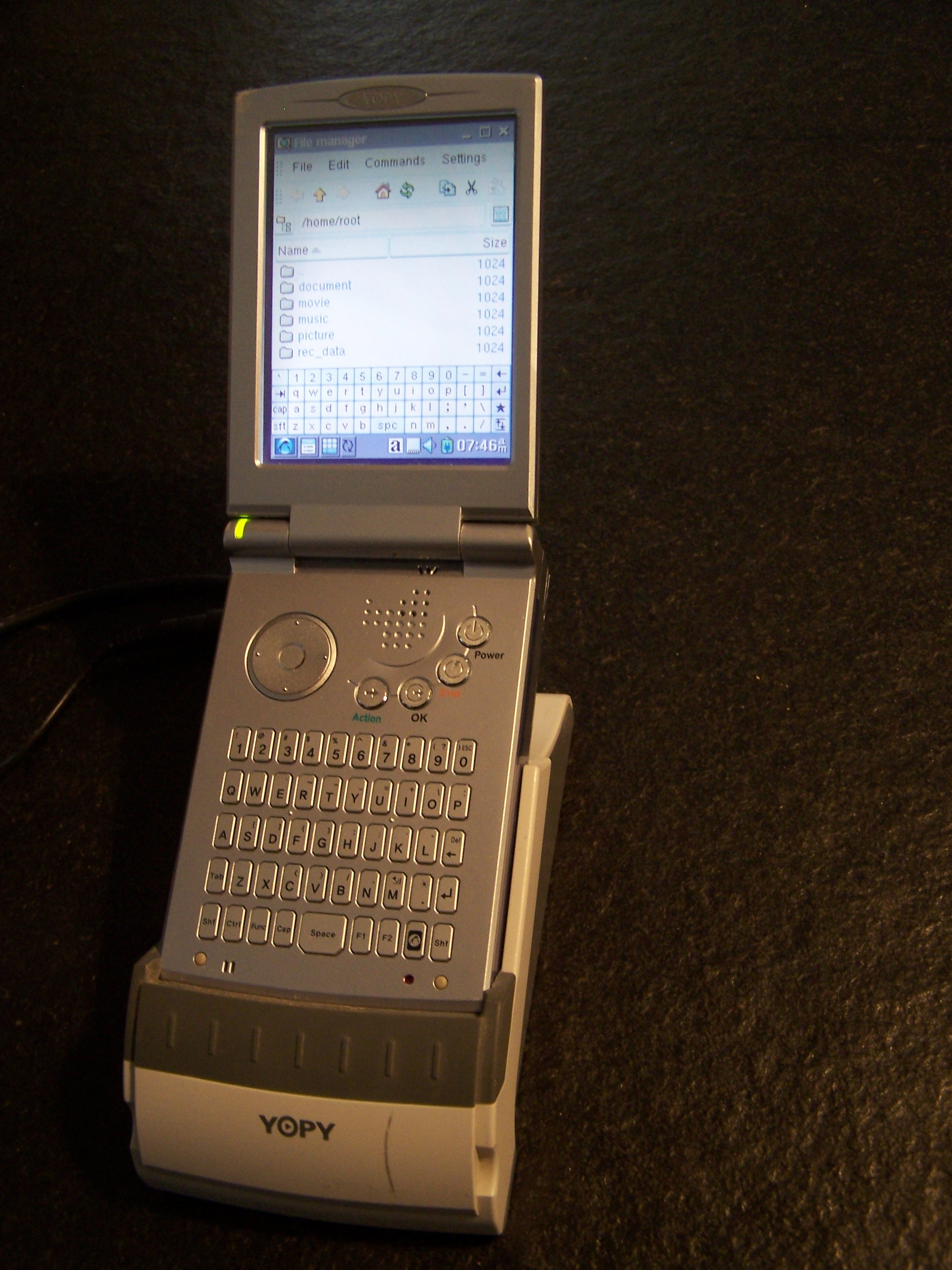 G.Mate Yopy